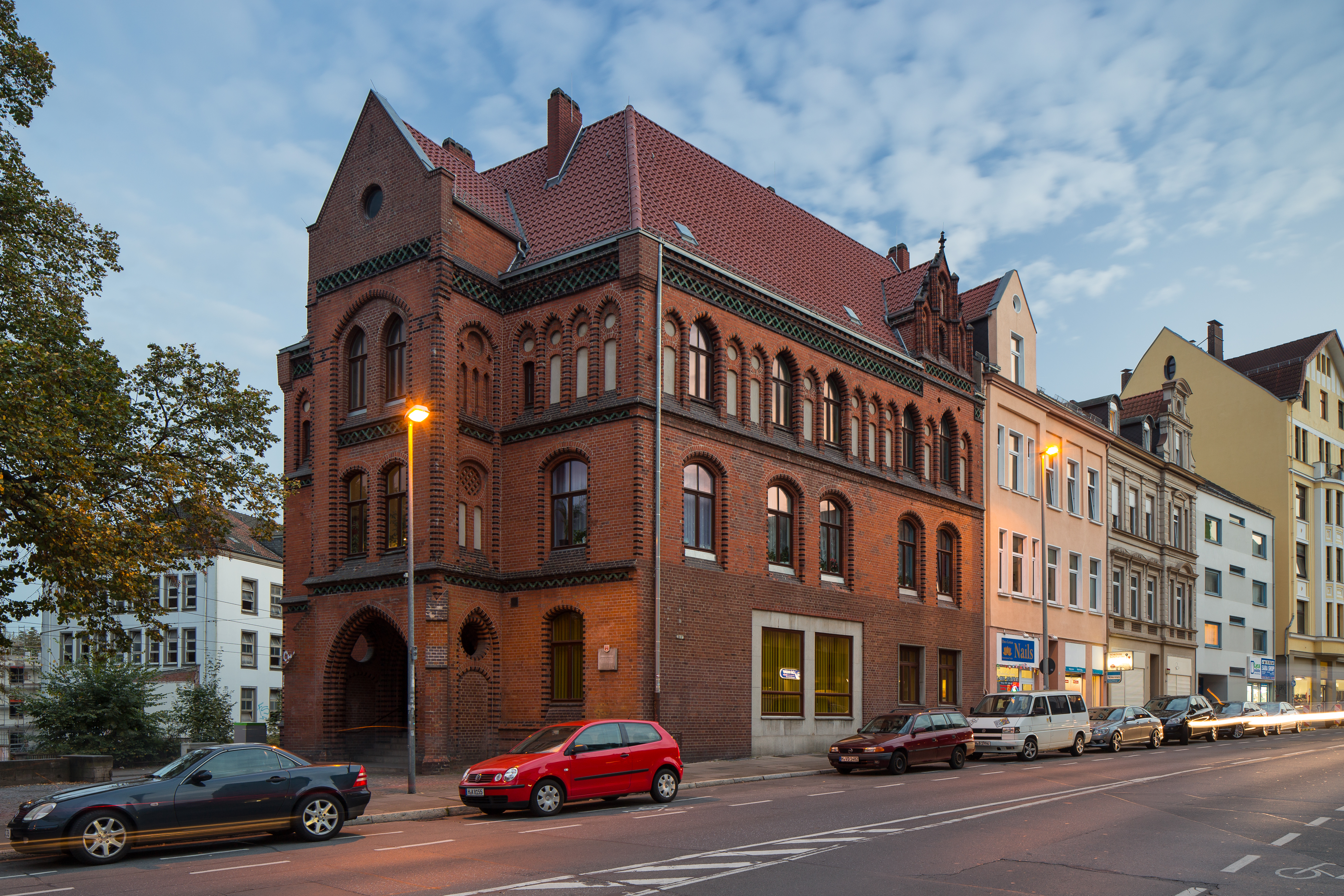 Old town hall of the former city of Linden, nowadays a district of Hanover, Germany. The building is located at Deisterstrasse.